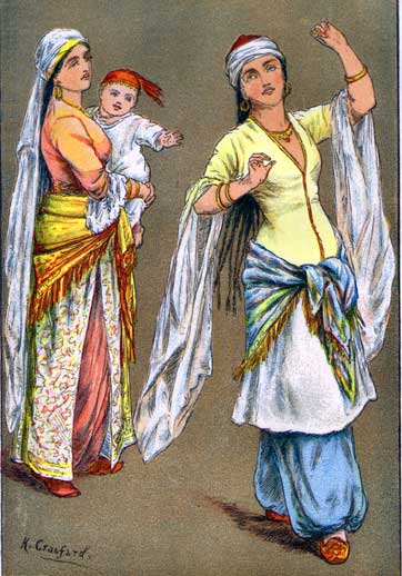 Lithograph (stone engraving) Egypt - Egyptian